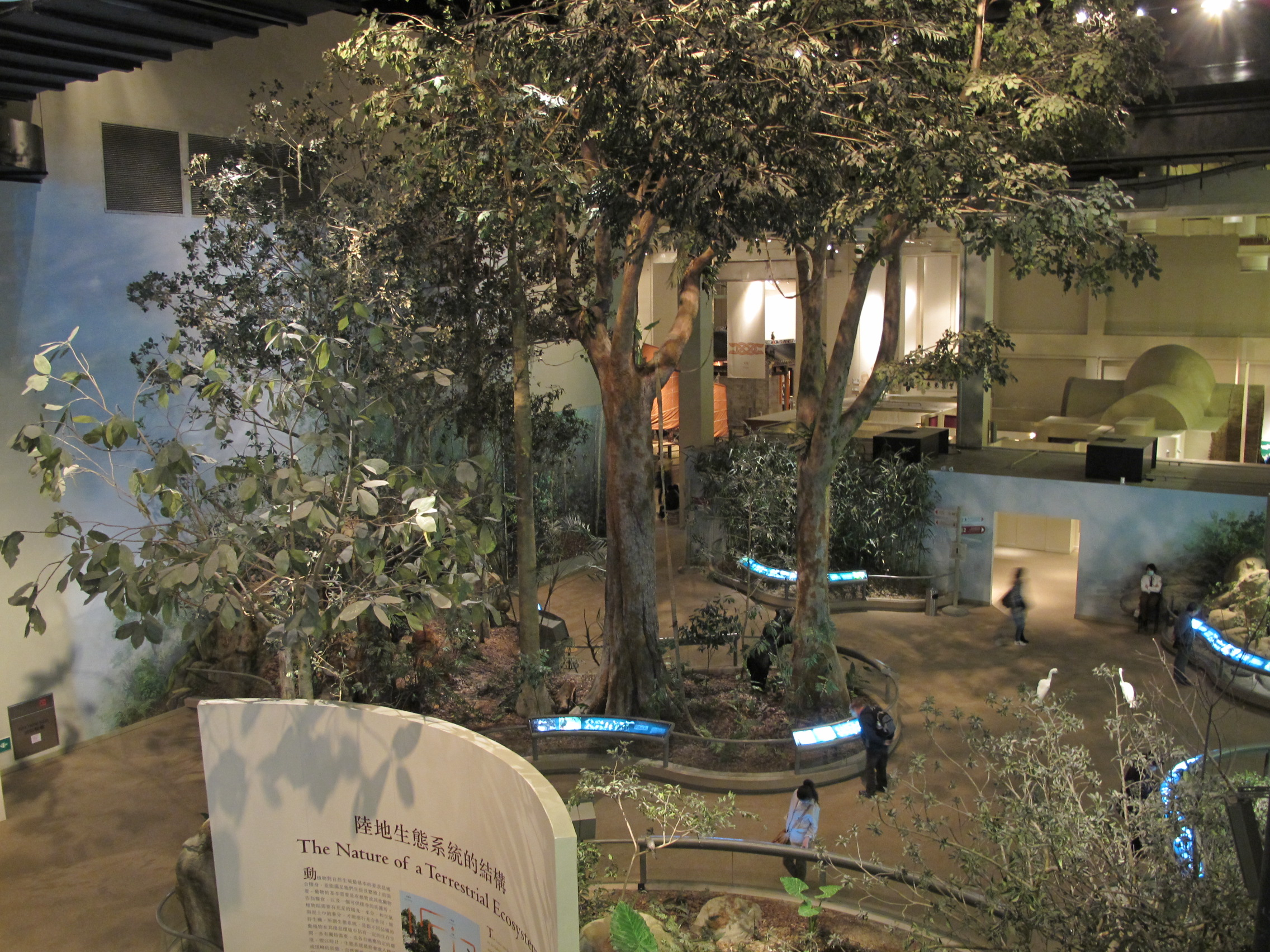 The Natural Environment in Hong Kong Museum of History